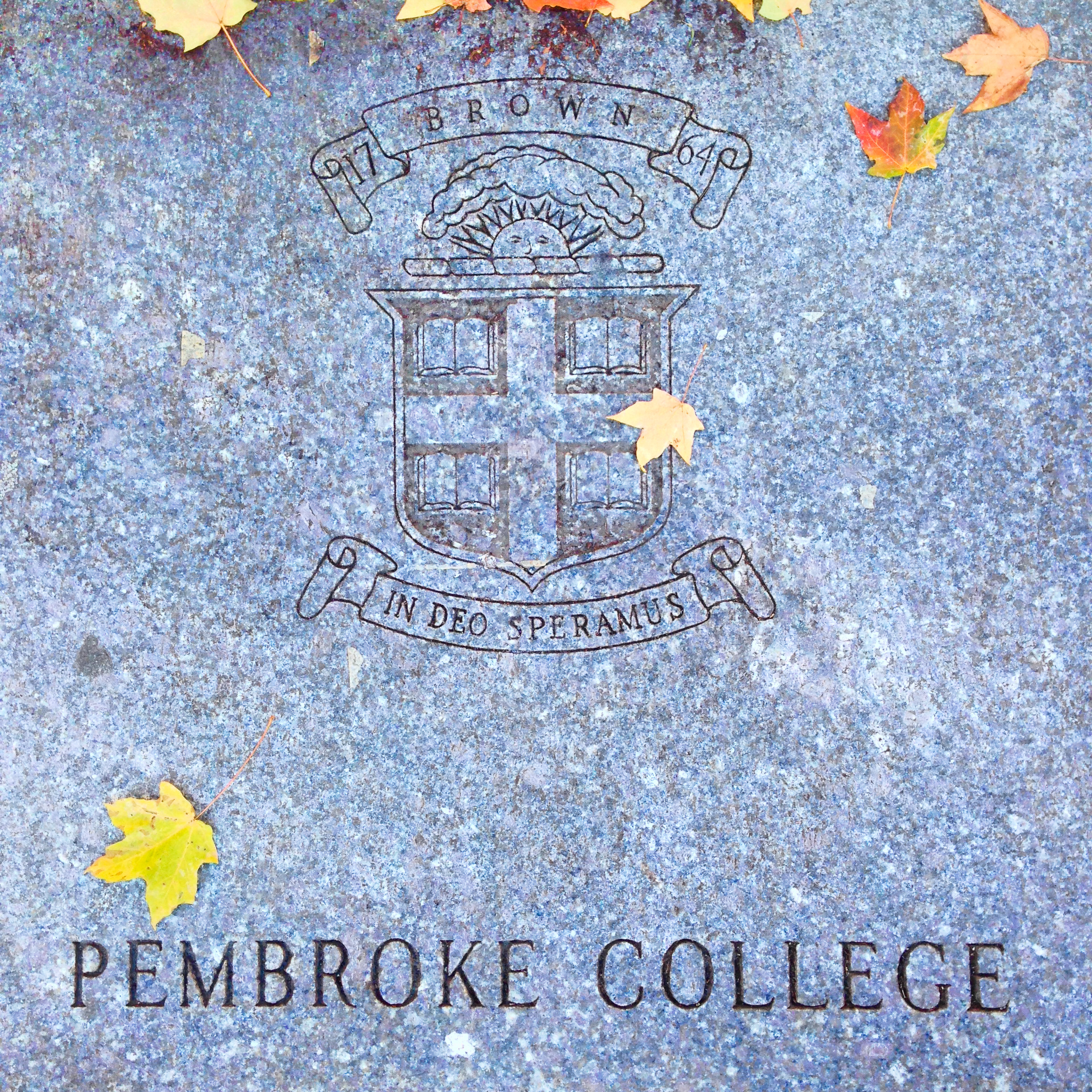 Engraved granite slab on the Brown University Pembroke Campus includes the Brown University seal and the words "PEMBROKE COLLEGE"